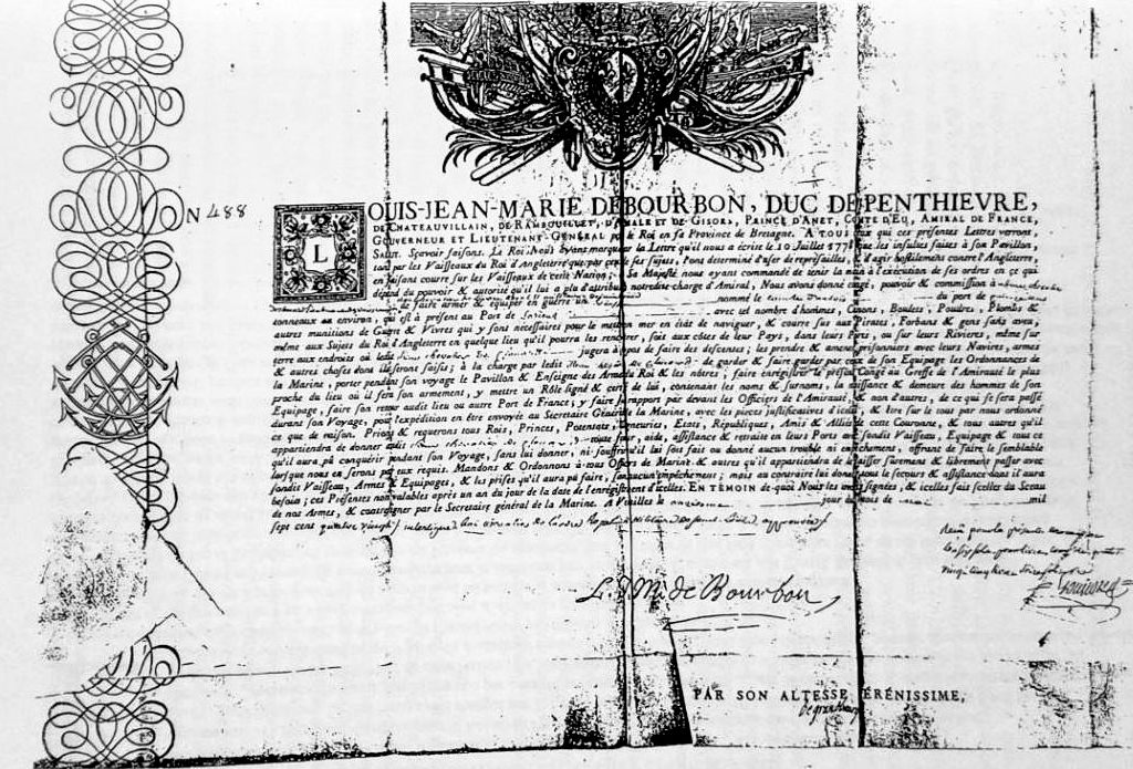 Letter of marque given to Robert Sutton de Clonard for the privateer Comte d'Artois, catpured in the Action of 13 August 1780